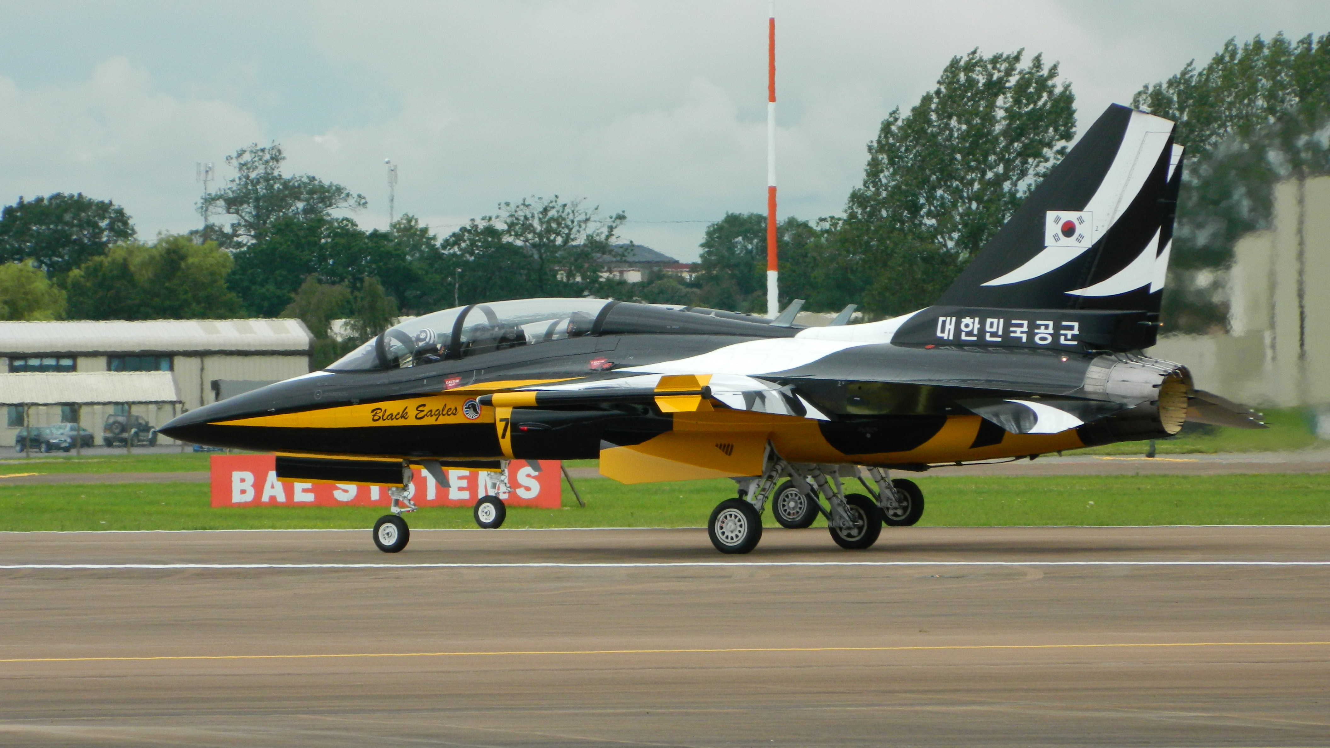 T-50 Golden Eagles of the Korean Air Force "Black Eagles" aerobatic team, departing the Royal International Air Tattoo at RAF Fairford, England